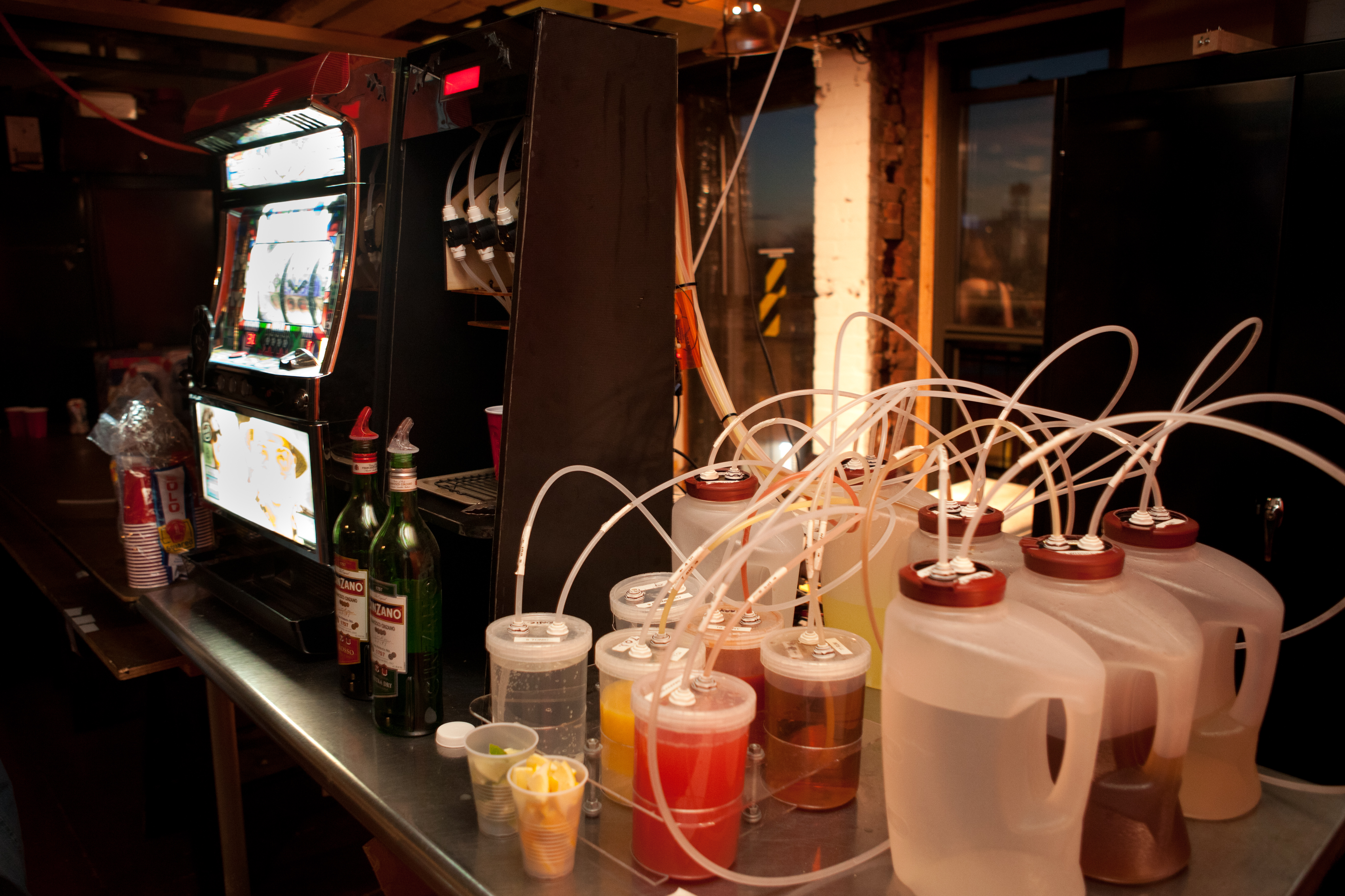 A drink making robot at the Hackerspace,NYC Resistor.